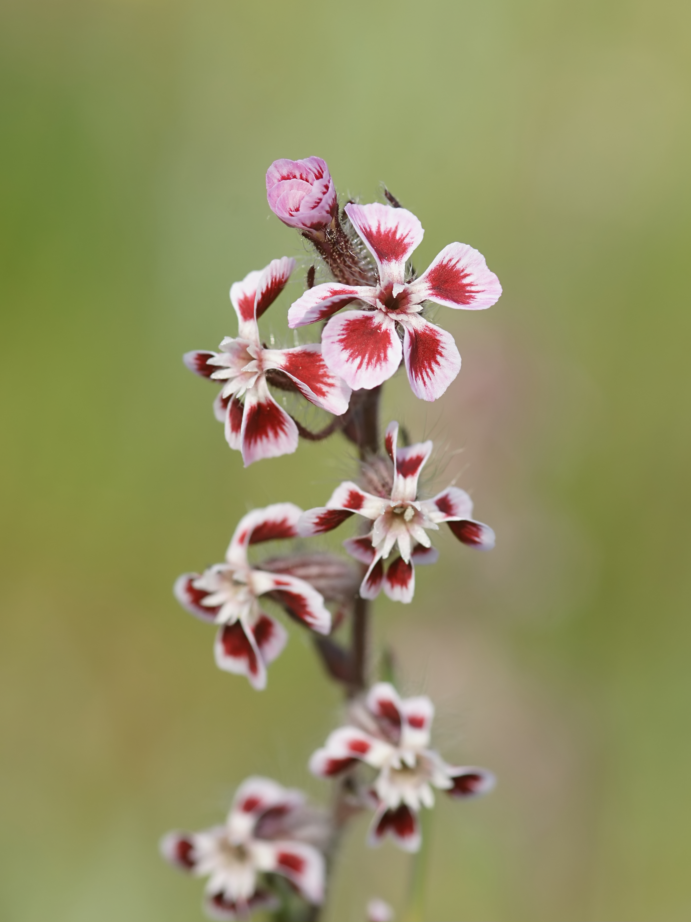 Five-wounded Catchfly at Les Issambres, Var, France